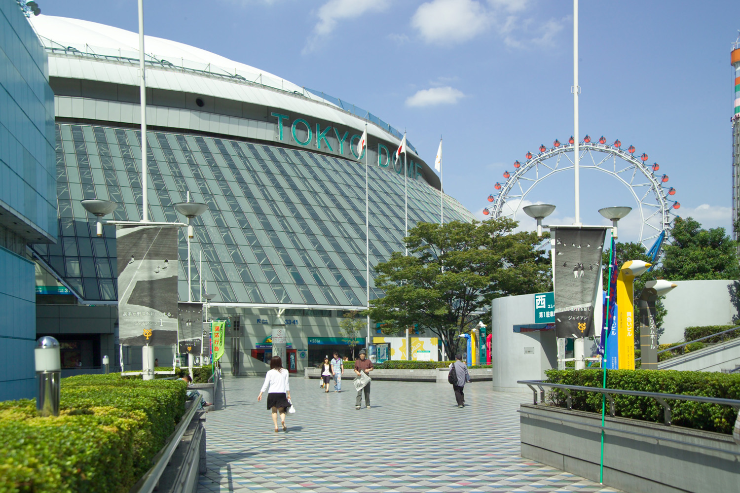 Tokyo Dome baseball stadium, adjacent to Suidobashi Station on JR Chuo-Sobu Line,Tokyo, Japan. I took the photo and release all my rights in this file to the public domain. Individuals and organizations retain rights to their images in the file.